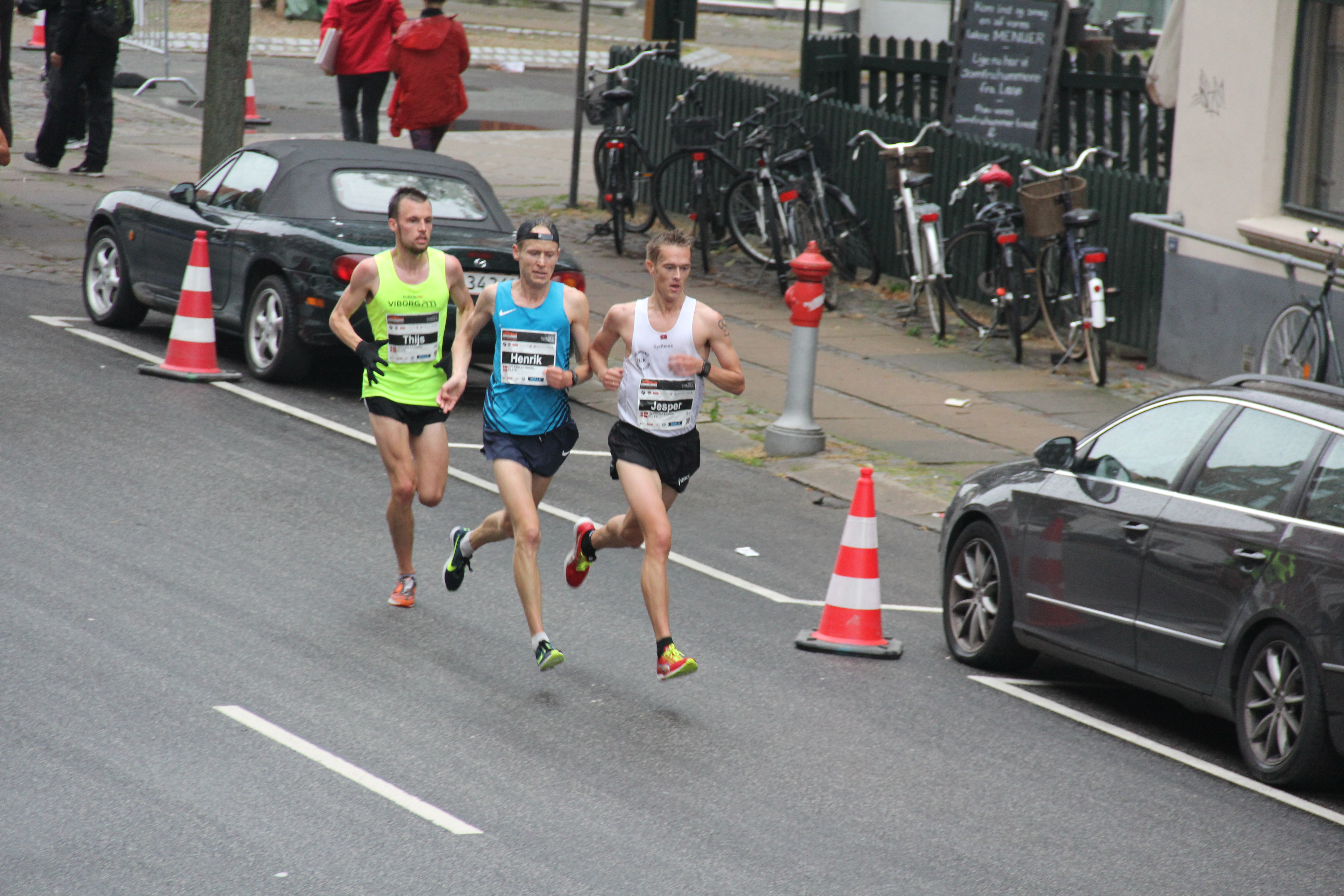 Half marathon Sep 13 2015 at 19.5 km Thijs Nijhuis Jesper Faurschou Henrik Them Andersen